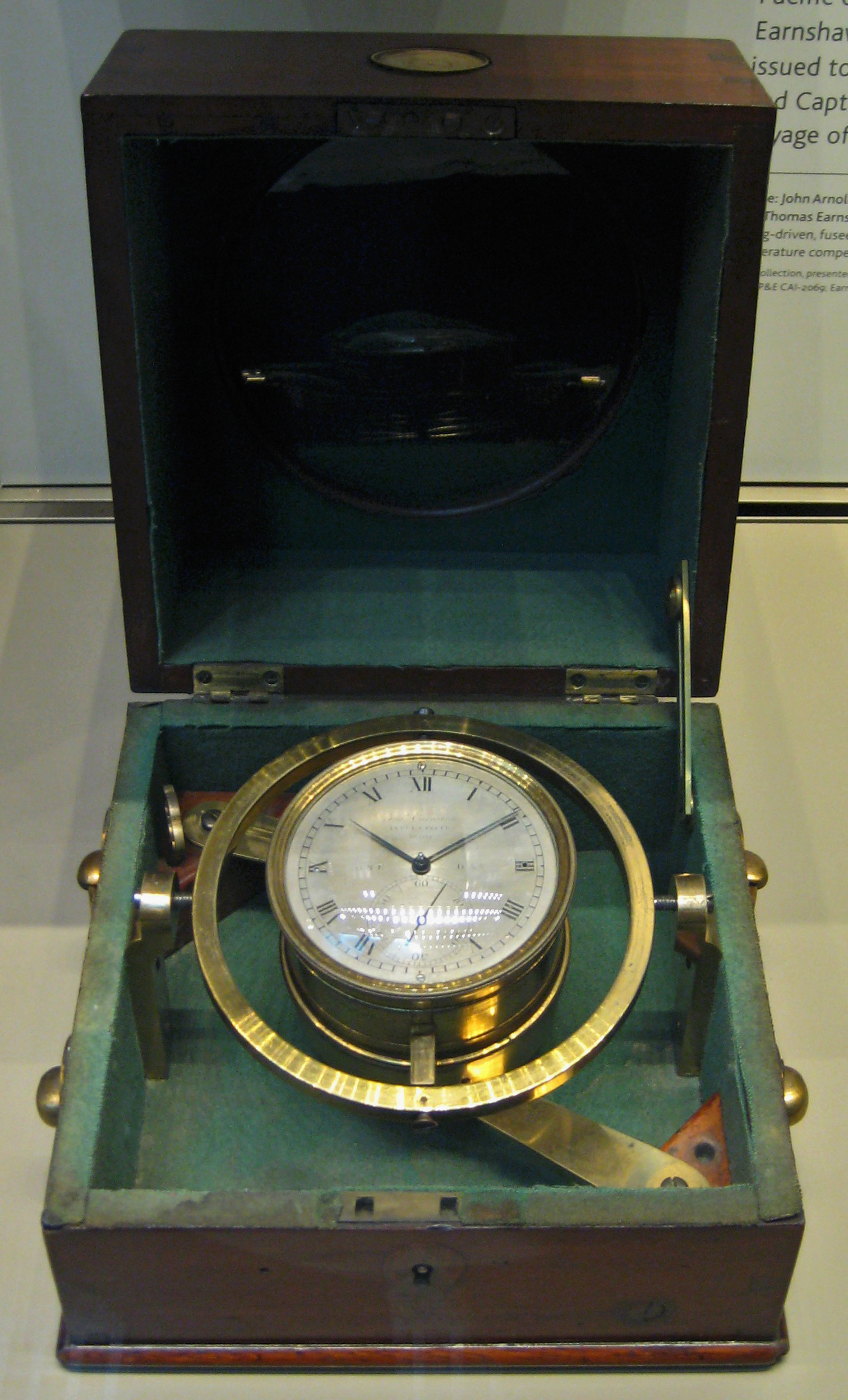 Marine chronometer made by Thomas Earnshaw (Senior) that was used on the HMS Beagle.